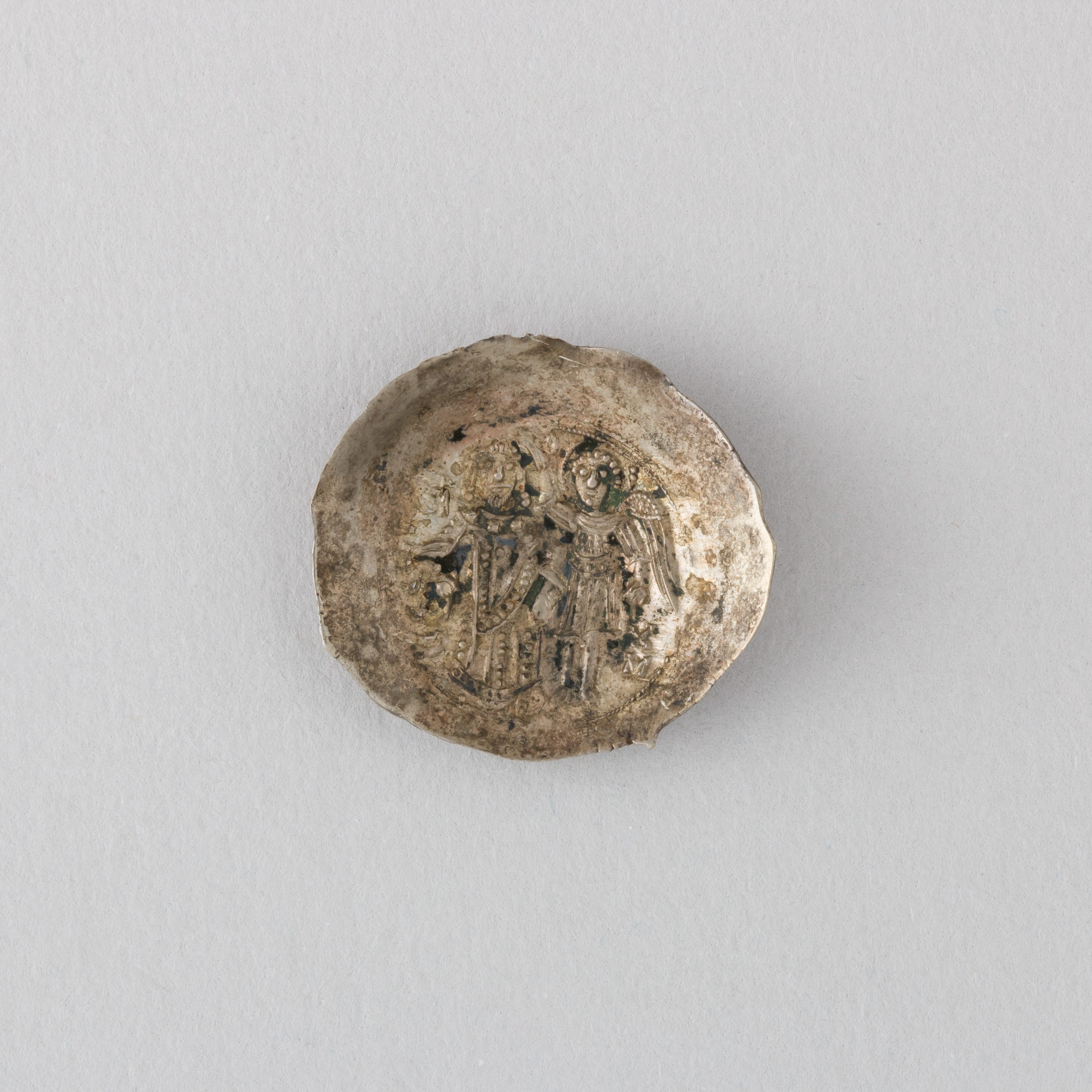 Byzantine; Coin; Miscellaneous-Coins and Medals